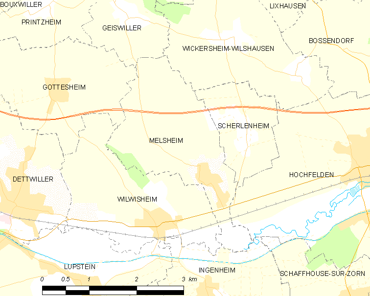 Map of French municipality